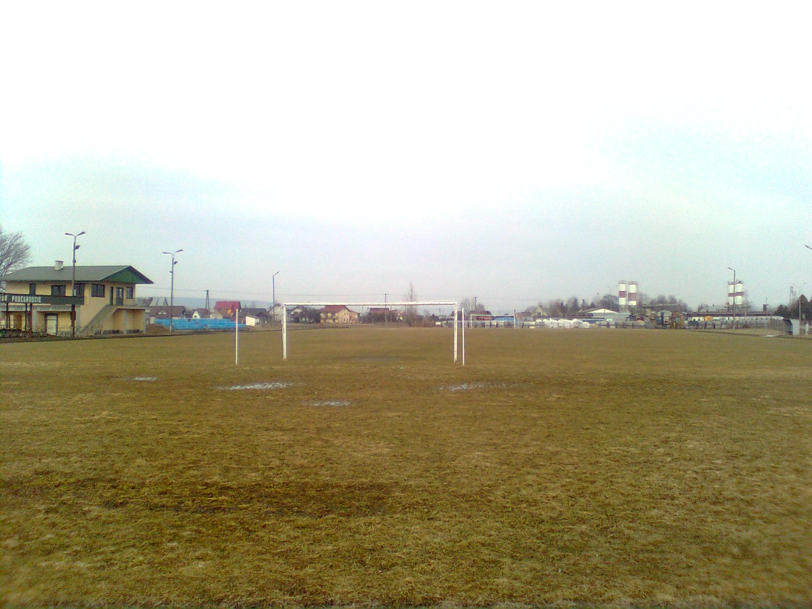 Turf on stadium in Podegrodzie (Lesser Poland Voivodeship)